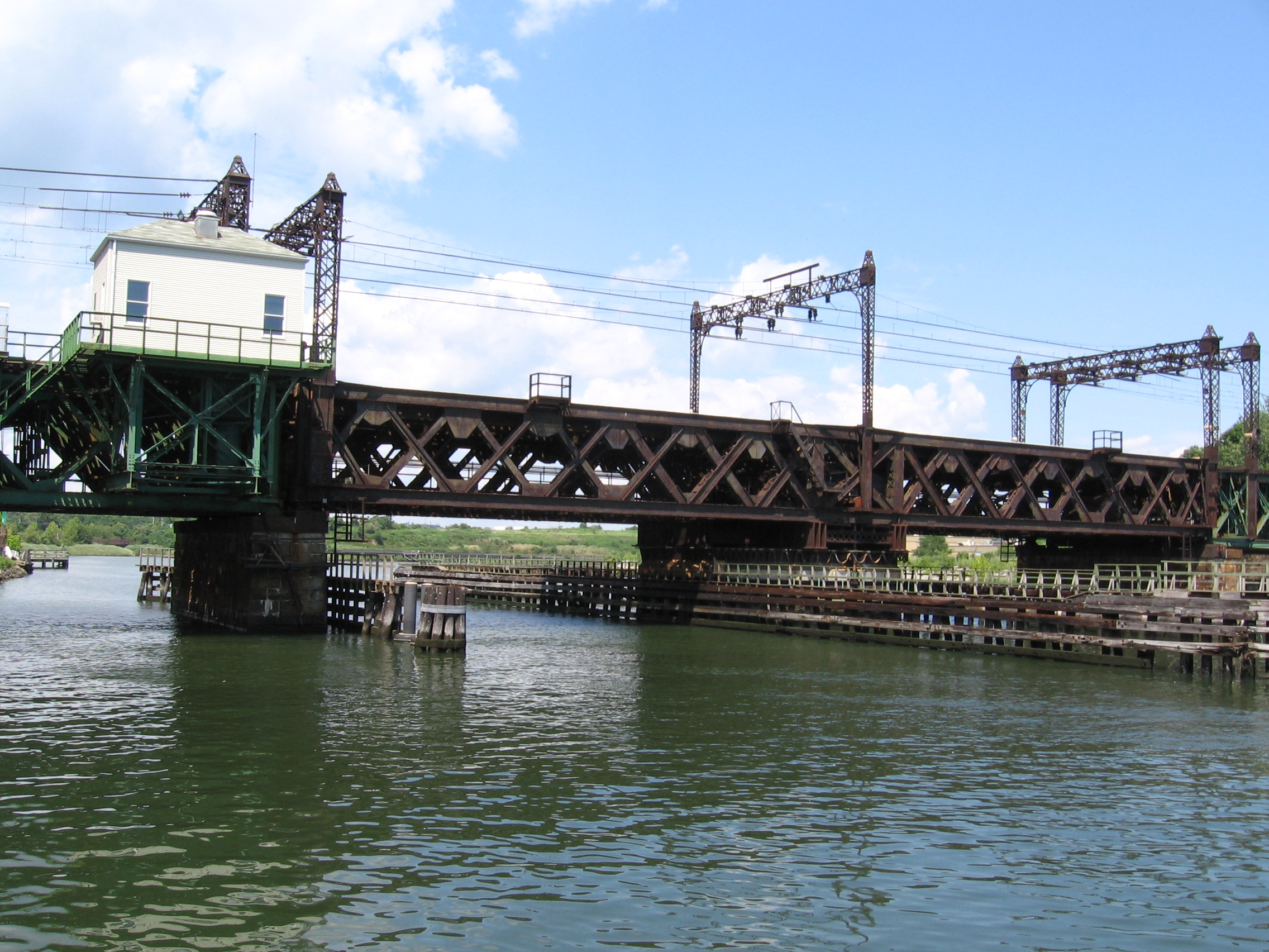 Railroad bridge over the Norwalk River as seen from the south on the South Norwalk side. This is the only "swing bridge" on the New Haven Line. When a ship needs to pass the bridge, the middle part swings (or turns) so that it is parallel with the river. The bridge is on the National Register of Historic Places. At this spot in 1853, a previous swing bridge was not ready for a train, which plunged into the river, killing dozens in one of the worst railroad accidents up to that time.